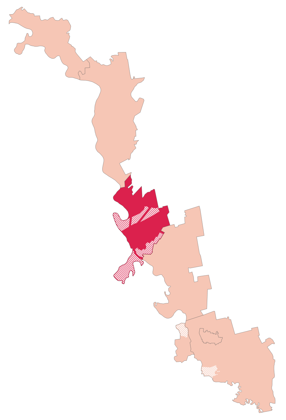 Raions of Transnistria: Dubasari